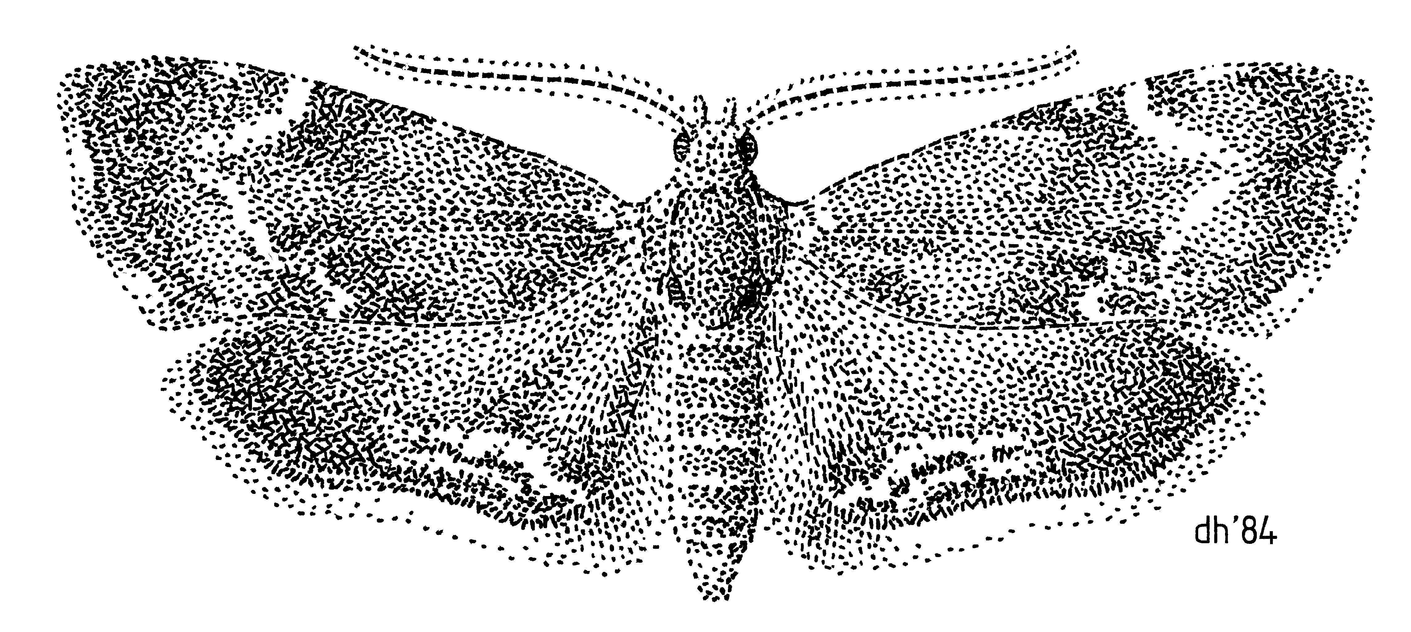 (Lepidoptera: Choreutidae) Asterivora combinatana illustrated by Des Helmore.